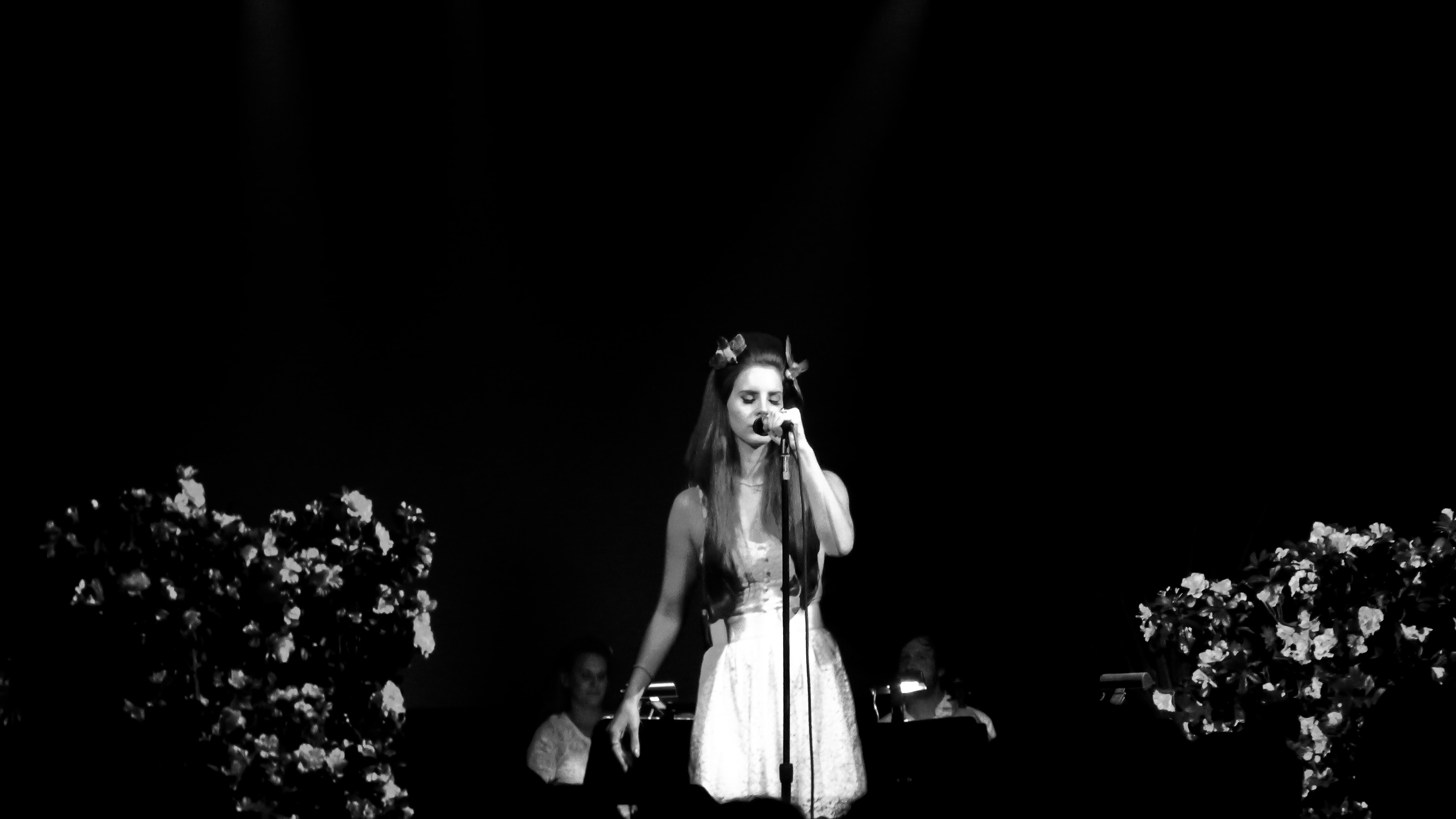 Lana Del Rey in Plaza, New York.